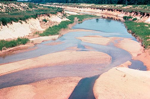 Siltation [1]